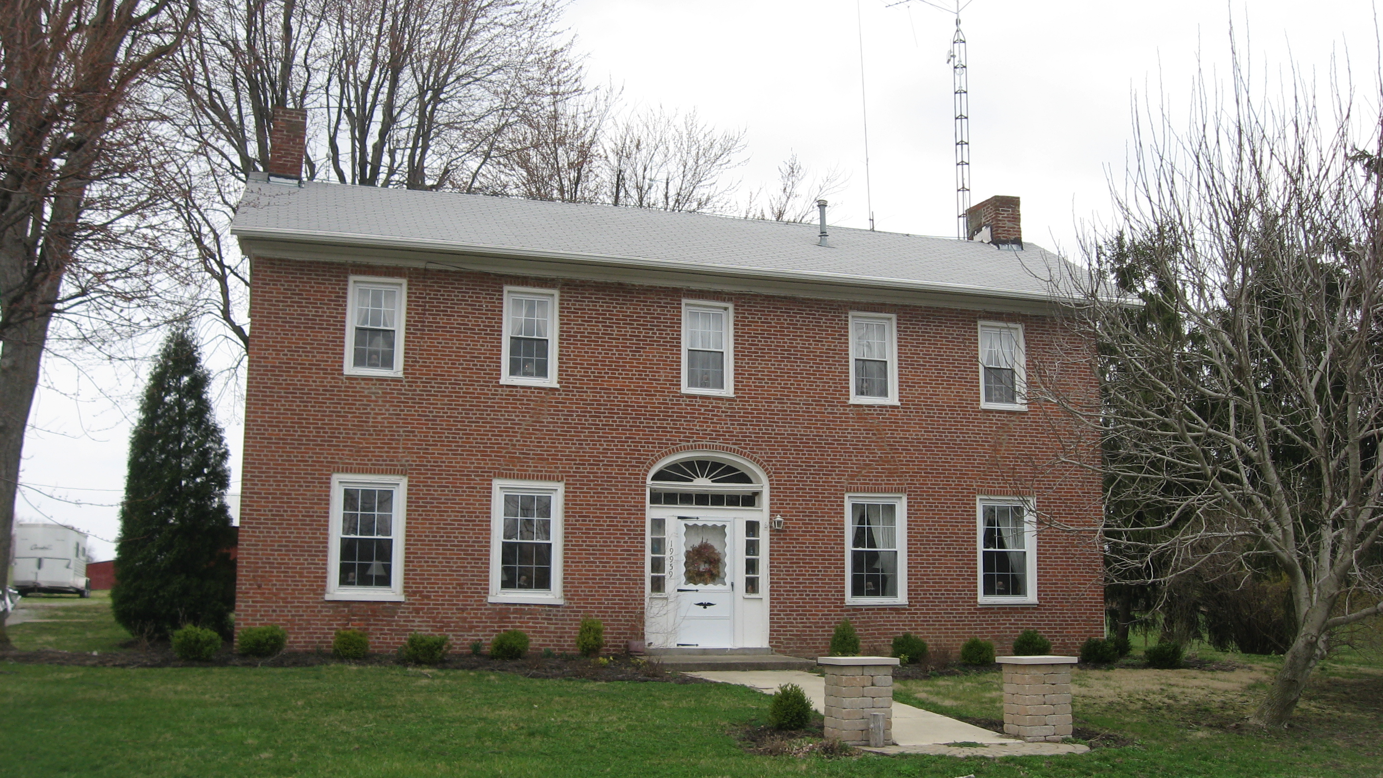 Front of the former Wheeler Tavern, located on the northwestern corner of the junction of County Roads 144 and 265 at Pfeiffer in Dudley Township, Hardin County, Ohio, United States. Built in 1835 along the old Bellefontaine/Sandusky Road, it was Hardin County's first brick residence.